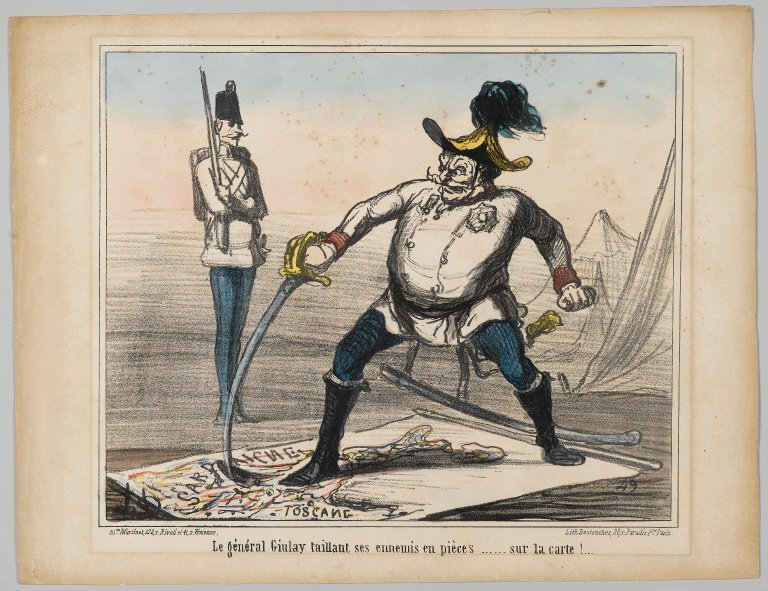 Part of the series Actualités, no. 69. Published in Le Charivari, 20 June 1859. Depicted person: Ferencz Jozsef Gyulai